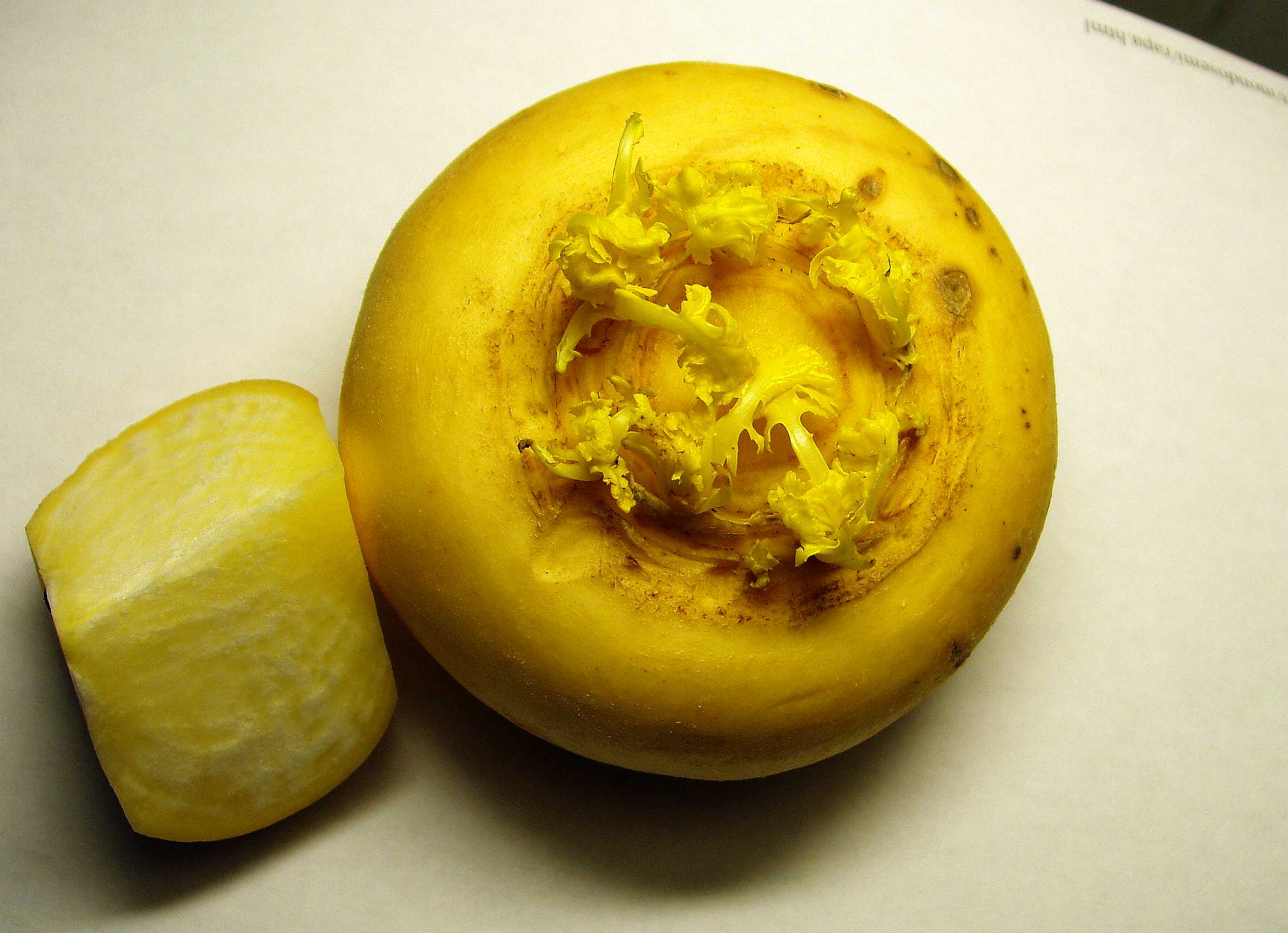 Caprauna's turnip (typical product of Caprauna - CN, Italy)